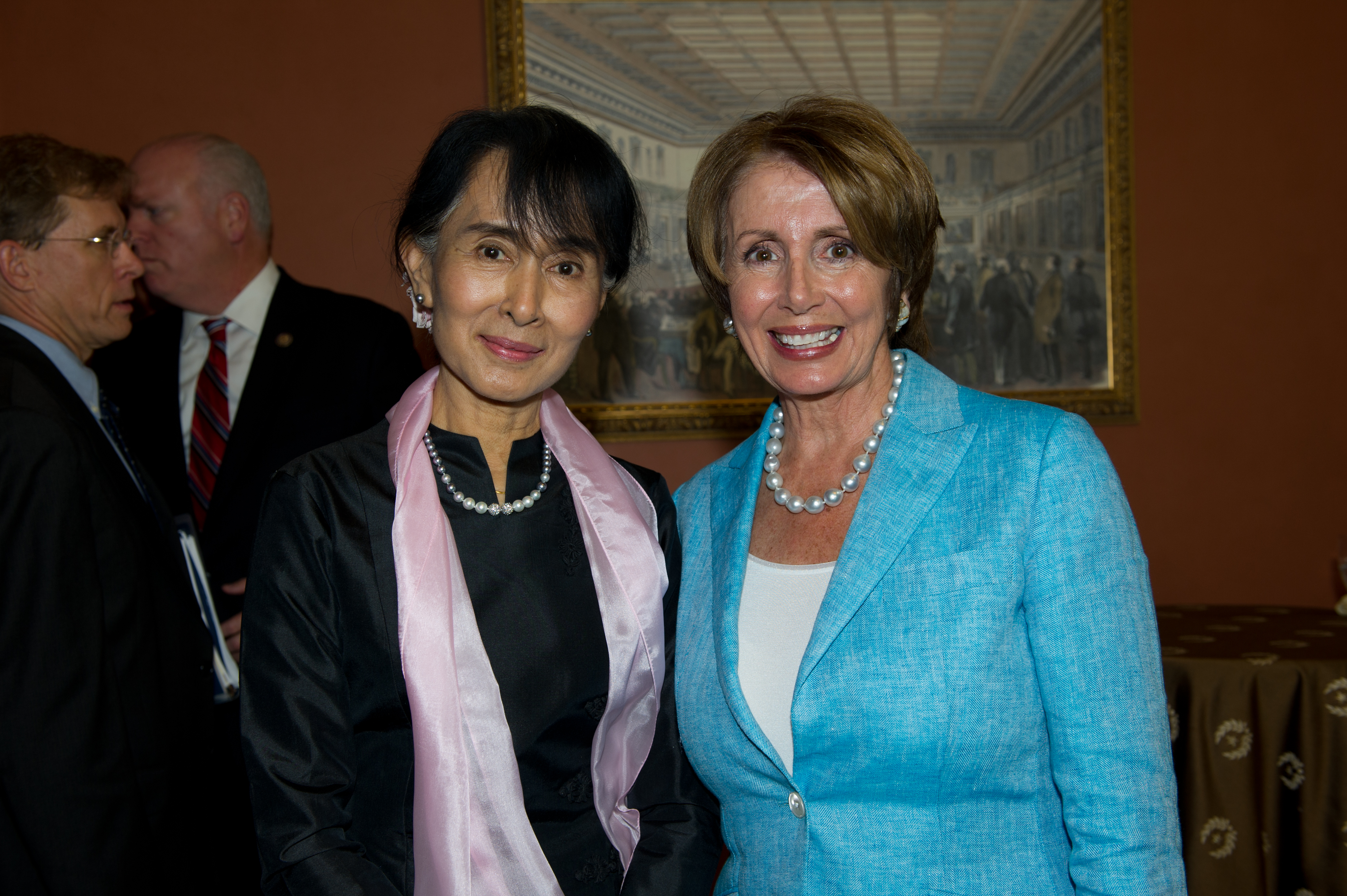 Congresswoman Pelosi honors Daw Aung San Suu Kyi at a Congressional Gold Medal ceremony for her unwavering commitment to peace, non-violence, and democracy in Burma.